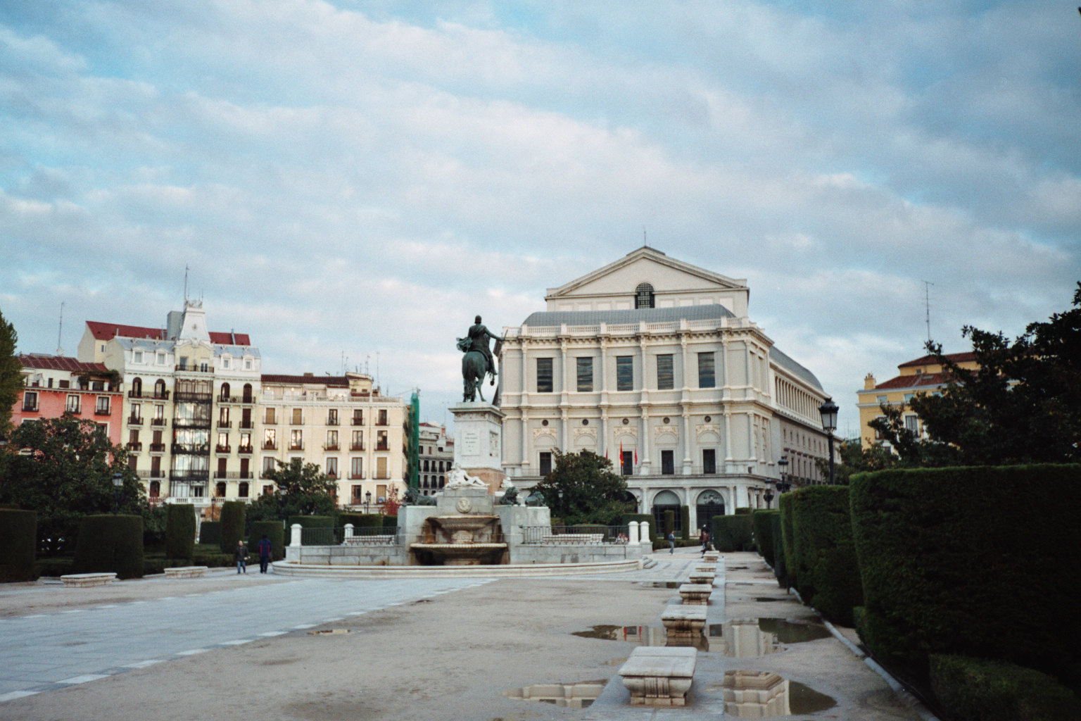 Description: View on Teatro Real in Madrid. Source: self-made. I release it into the public domain.